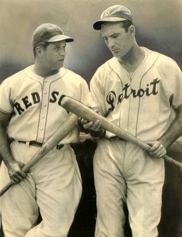 Jimmie Foxx and Hank Greenberg